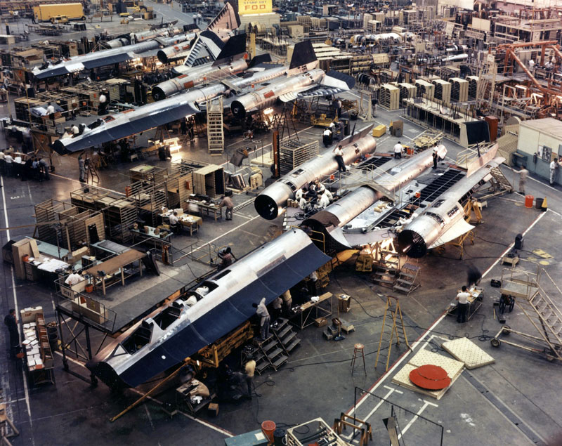 SR-71 production at Lockheed Skunk Works.